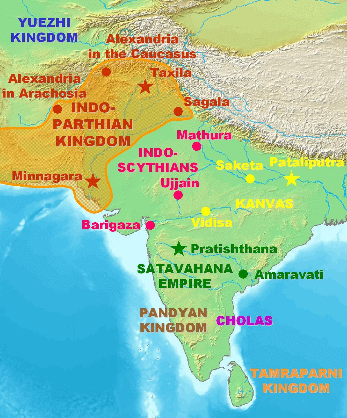 Map of the Indo-Parthian Kingdom — in the 130s CE.